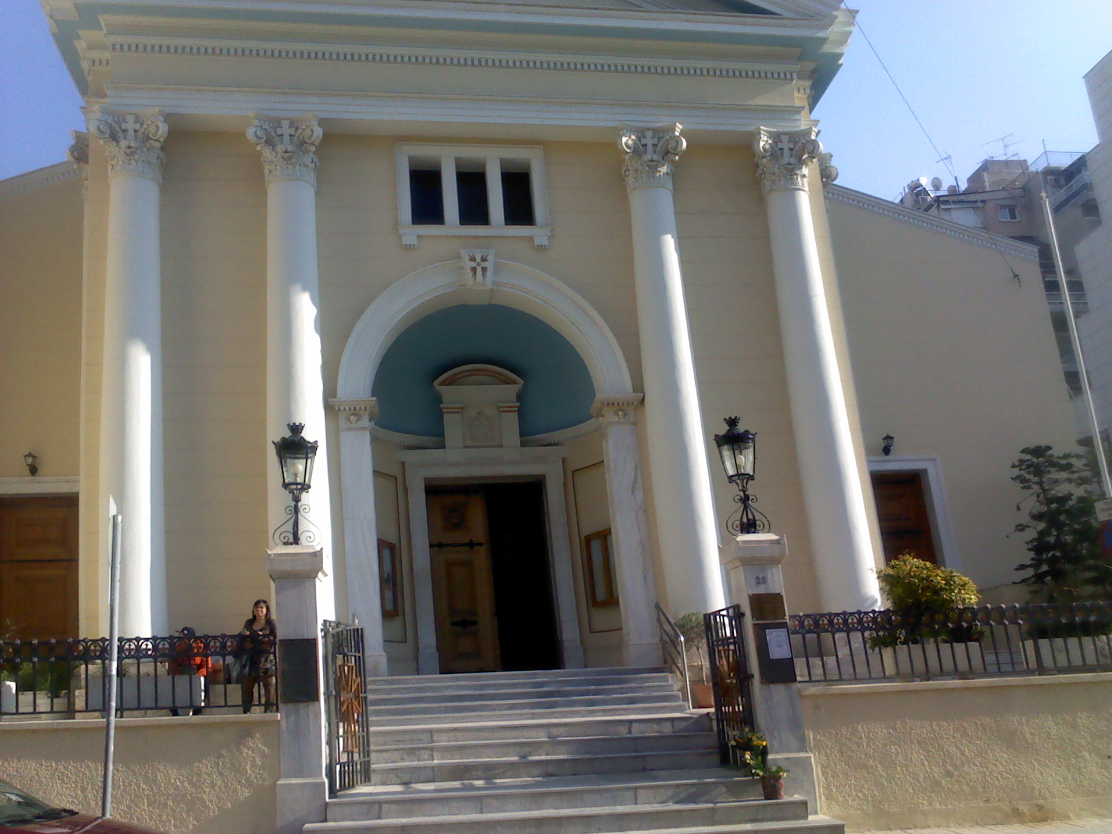 Katholic Churche Pireas